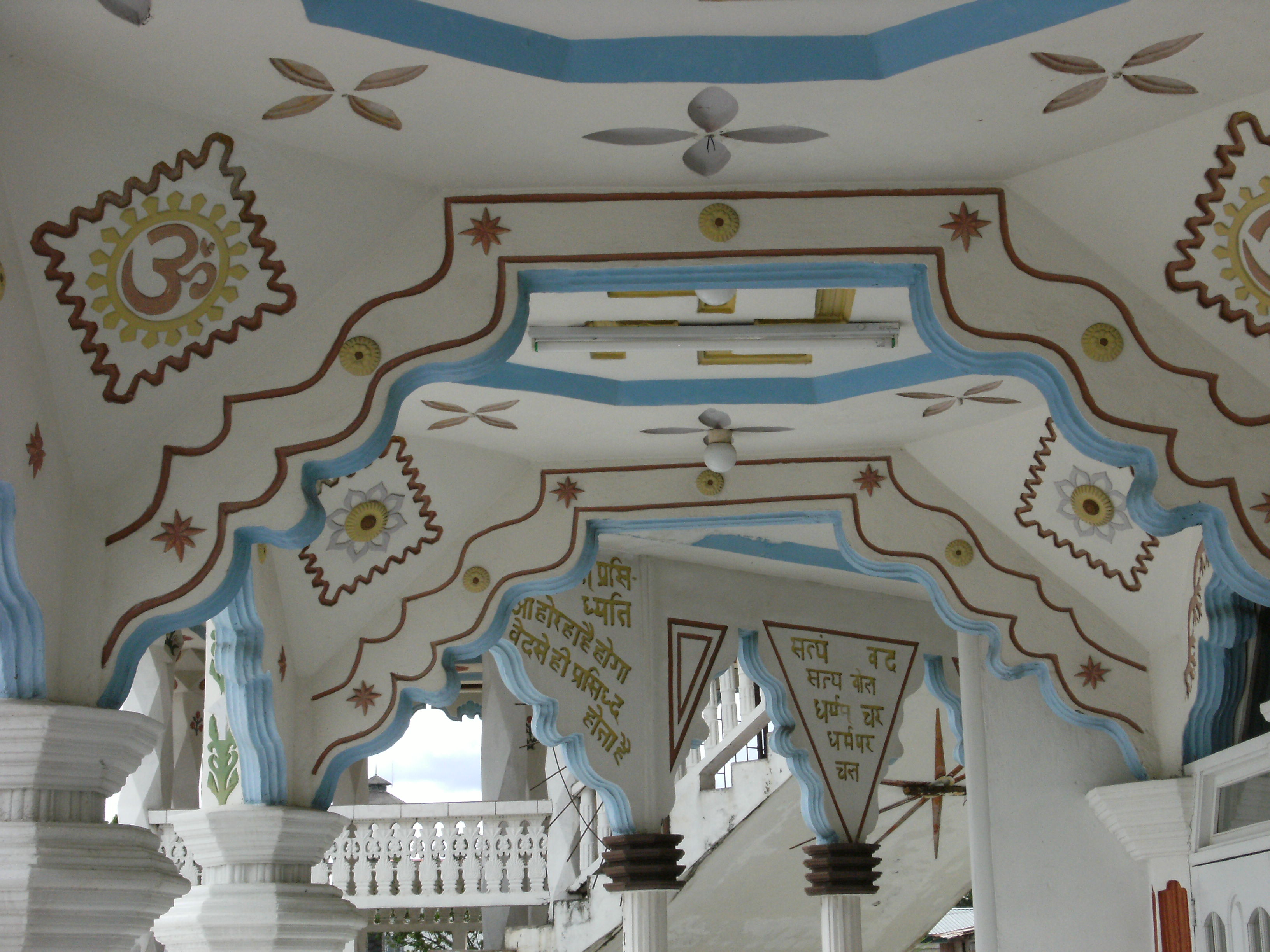 Arya Dewaker temple Paramaribo.